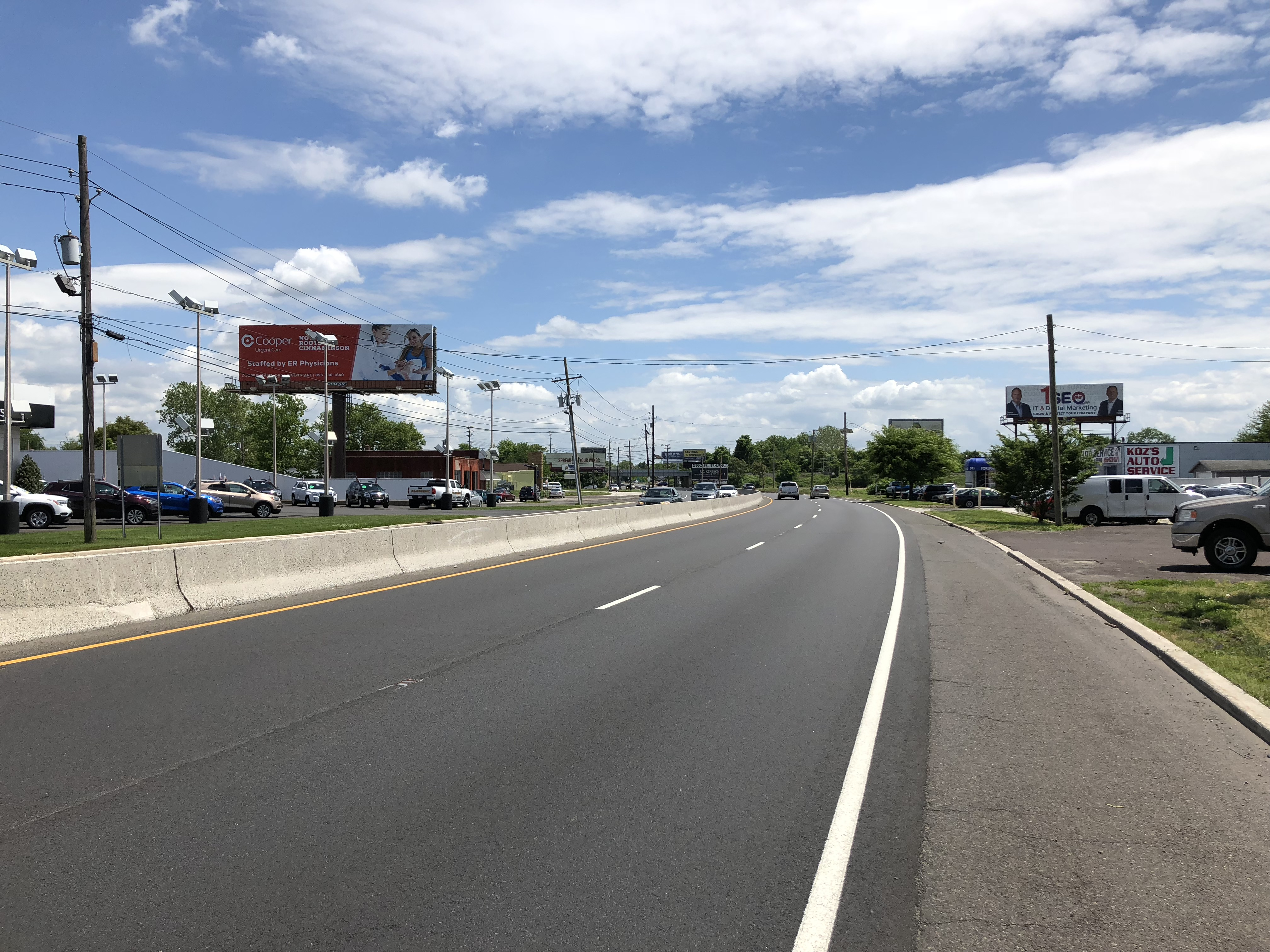 View south along New Jersey State Route 73 (Palmyra Bridge Boulevard) just north of West 5th Street in Palmyra, Burlington County, New Jersey